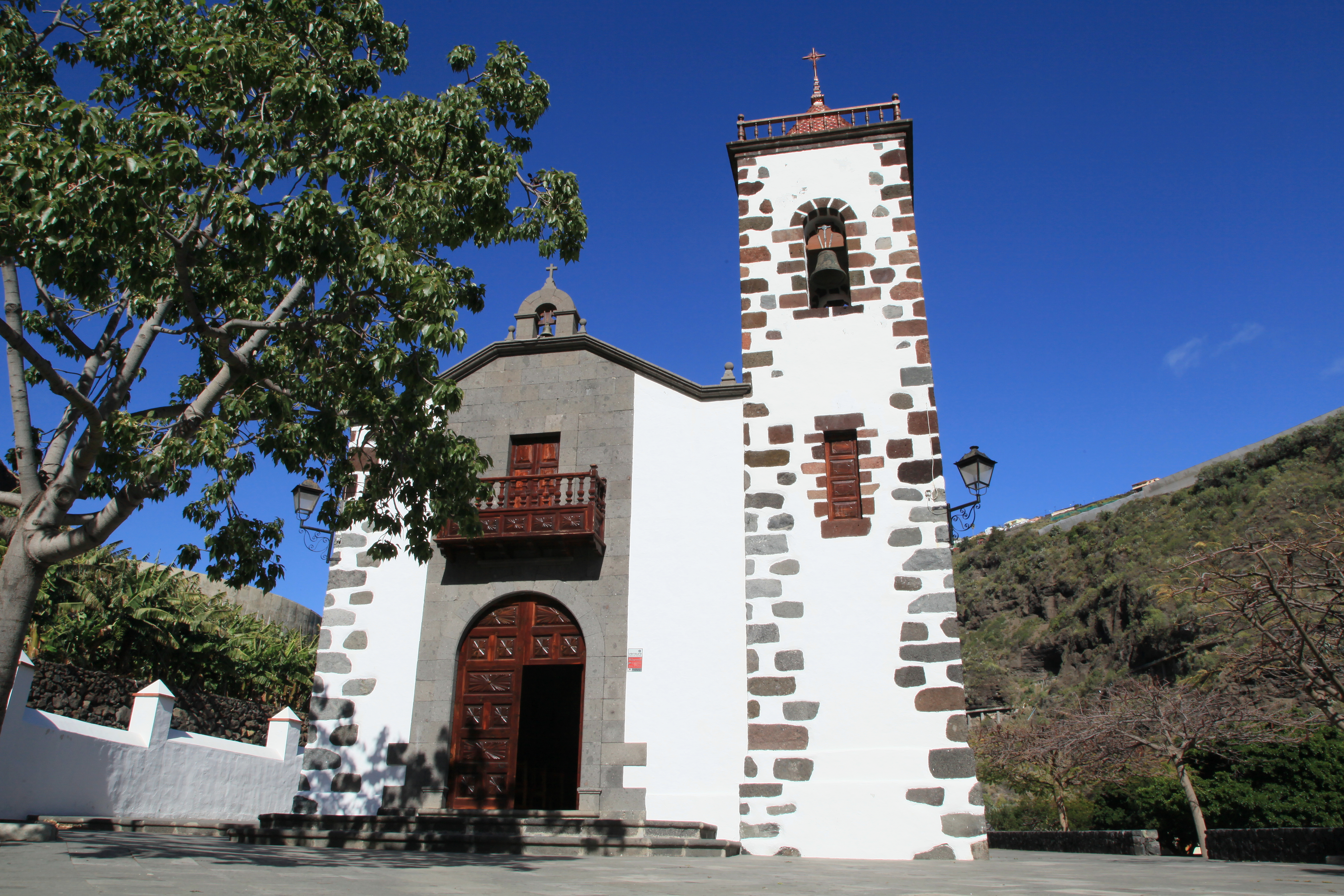 Santuario de Nuestra Señora de Las Angustias, Carretera Las Angustias El Puerto (LP-120) in Los Llanos de Aridane, La Palma, Canary Island, Spain